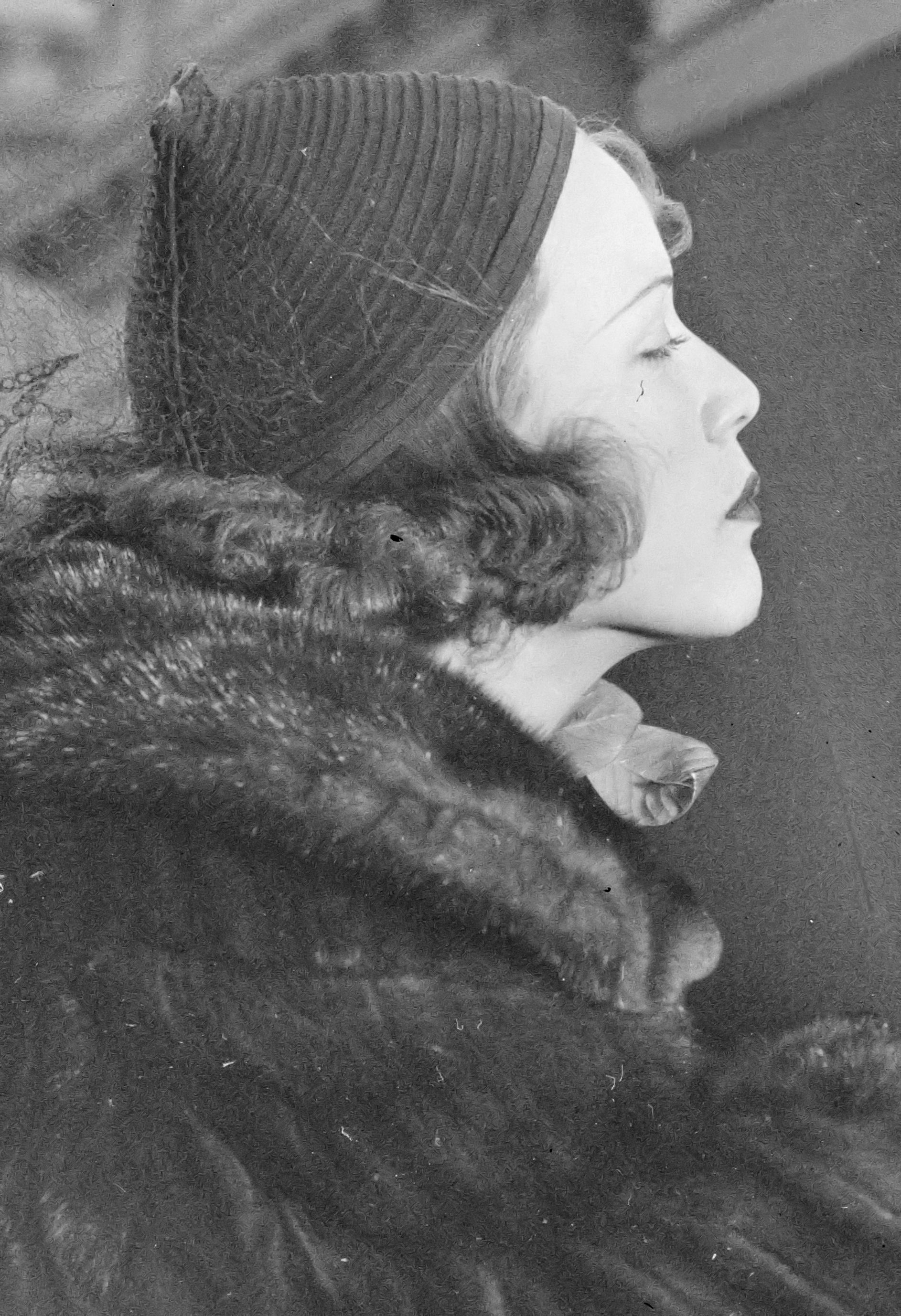 Eleanor Powell